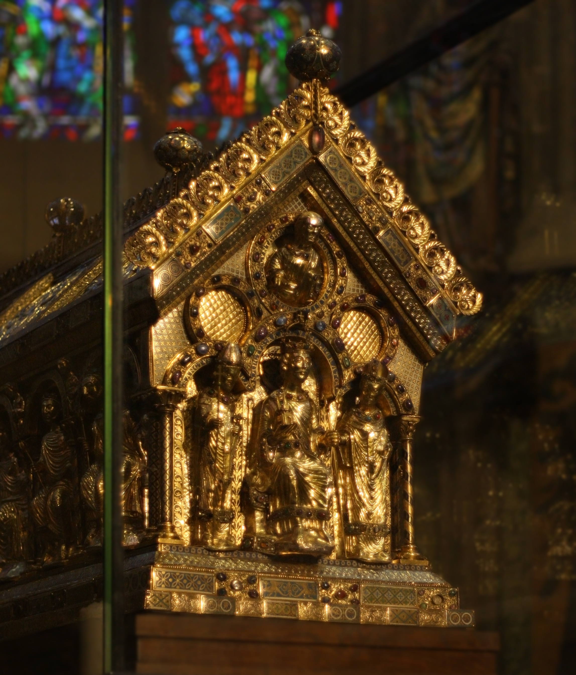 Aachen, Germany. Shrine of Charlemagne in Aachen cathedral.